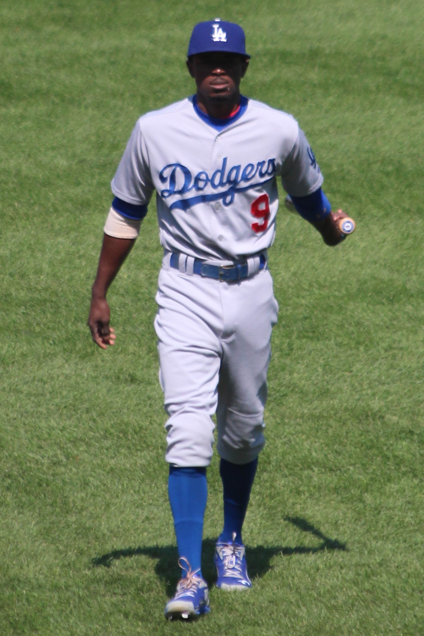 Dee Gordon for the 2014 Los Angeles Dodgers against the 2014 Chicago Cubs at Wrigley Field.